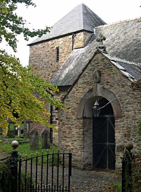 St John Church As you might expect, the parish church in a village called St John is dedicated to that saint, although whether St John the Evangelist or St John the Baptist seems to have changed over the years.